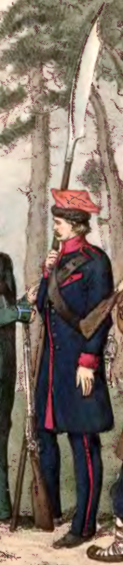 9th Infantry Regiment of the November Uprising